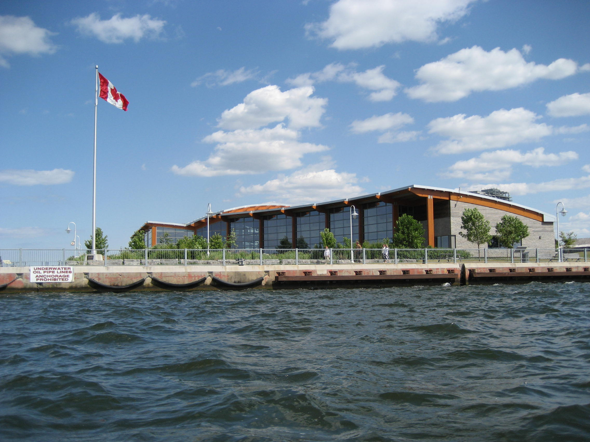 Canada Marine Discovery Centre, view from tour boat in Harbour, Hamilton, Ontario